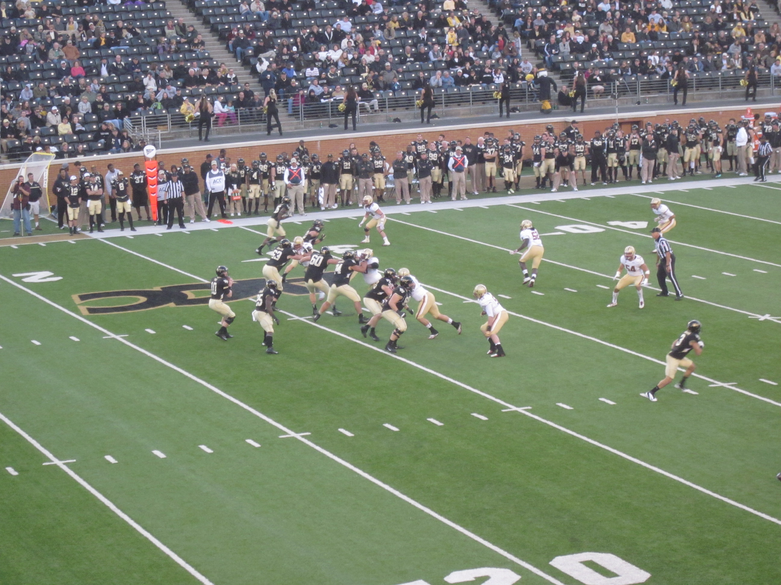 Picture from the Wake Forest/Boston College game on November 3, 2012